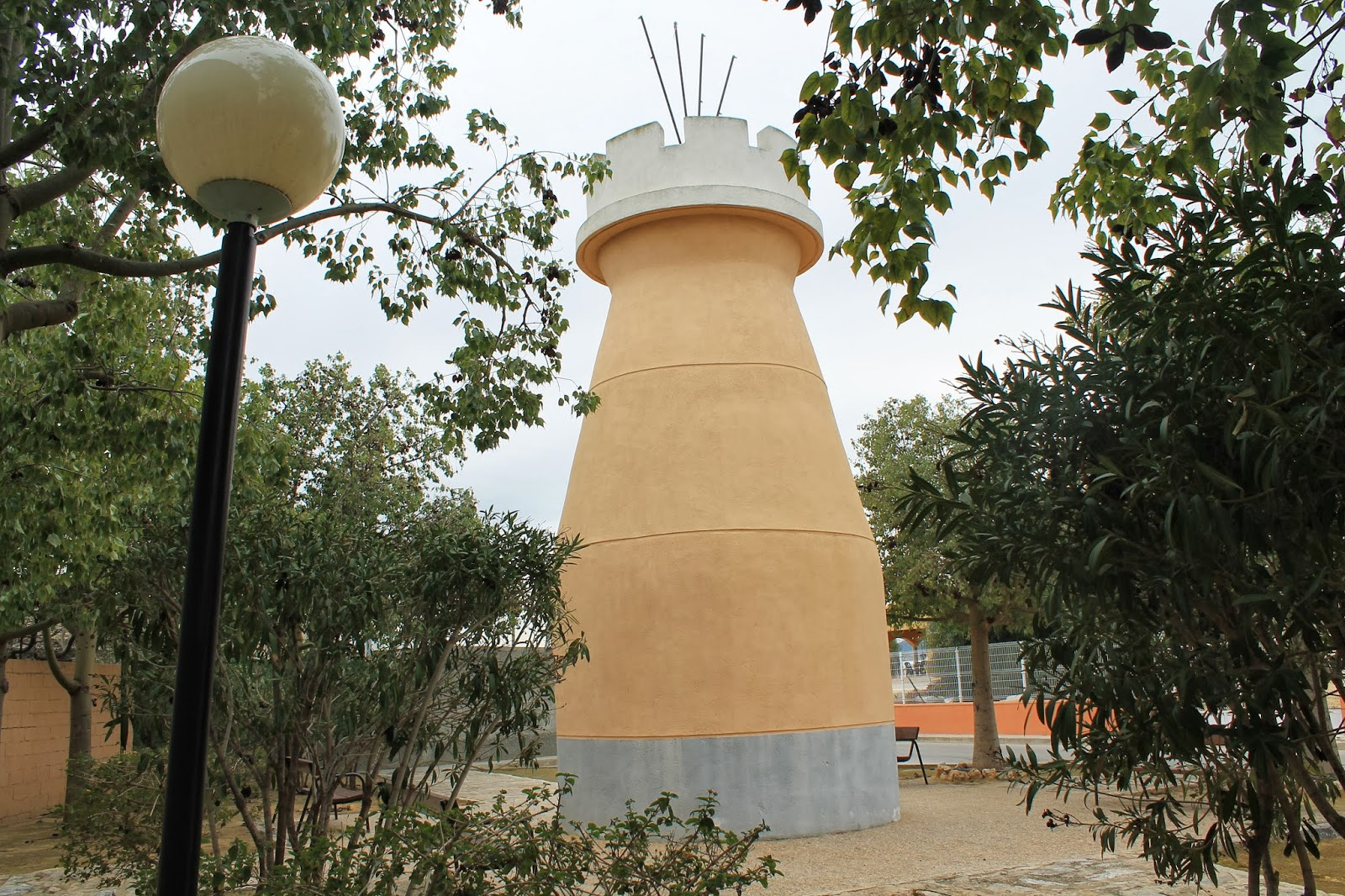 Mojón de El Mojón